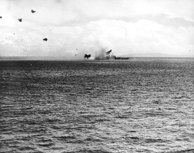 USS St. Louis (CL-49) hit by a kamikaze off Leyte, en:27 November en:1944Downloaded from [1]